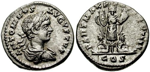 Caracalla. 198-217 AD. CARACALLA. 198-217 AD. AR Denarius (19mm, 4.01 g). Laodicea mint. Struck 201 AD. ANTONINVS AVGVSTVS Laureate and draped bust right PART MAX PONT TR P IIII Bound captive seated either side of trophy. RIC IV 346; RSC 177. Toned, good VF. From the Marc Melcher Collection.